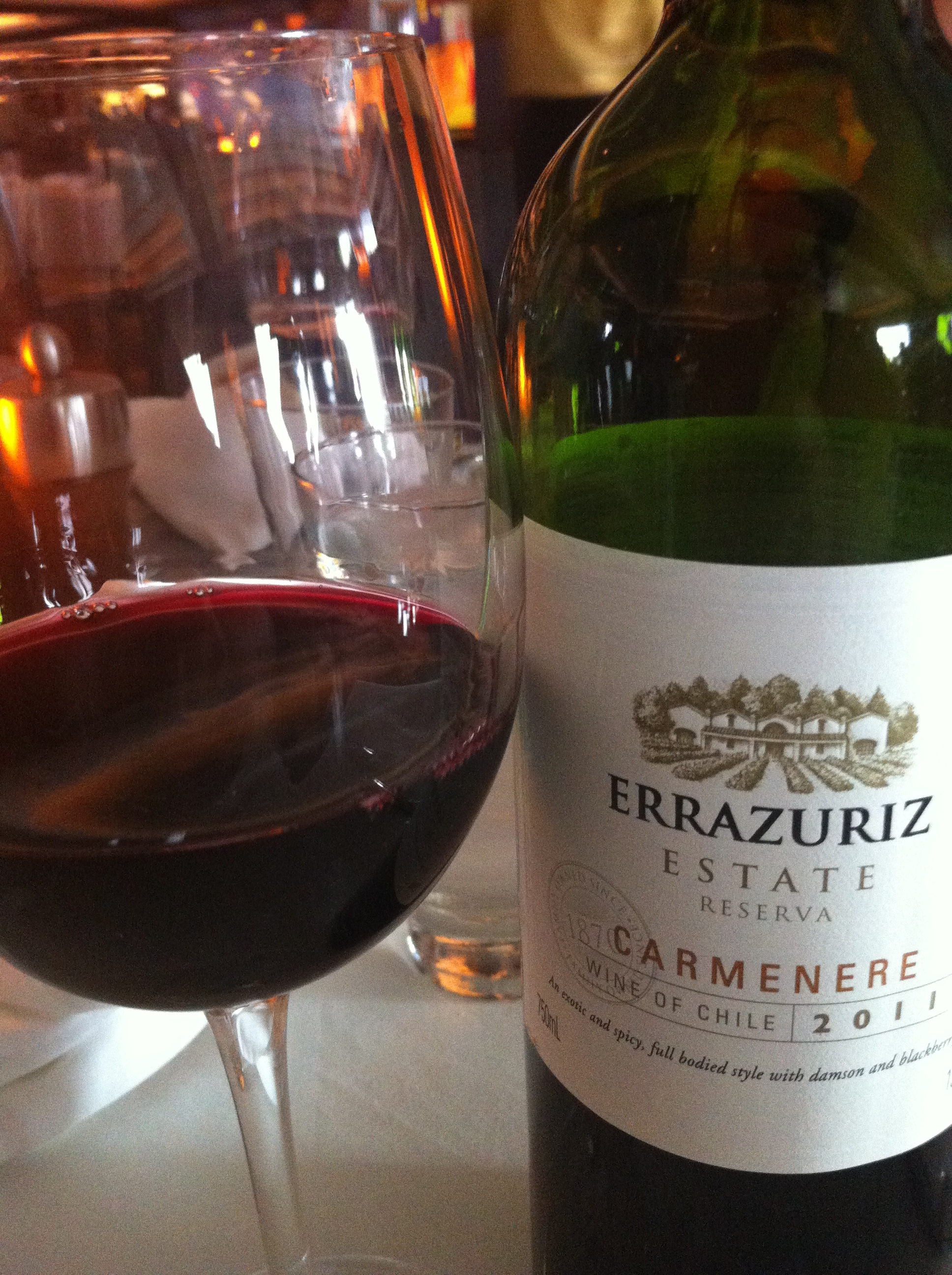 Carmenere wine from Chile